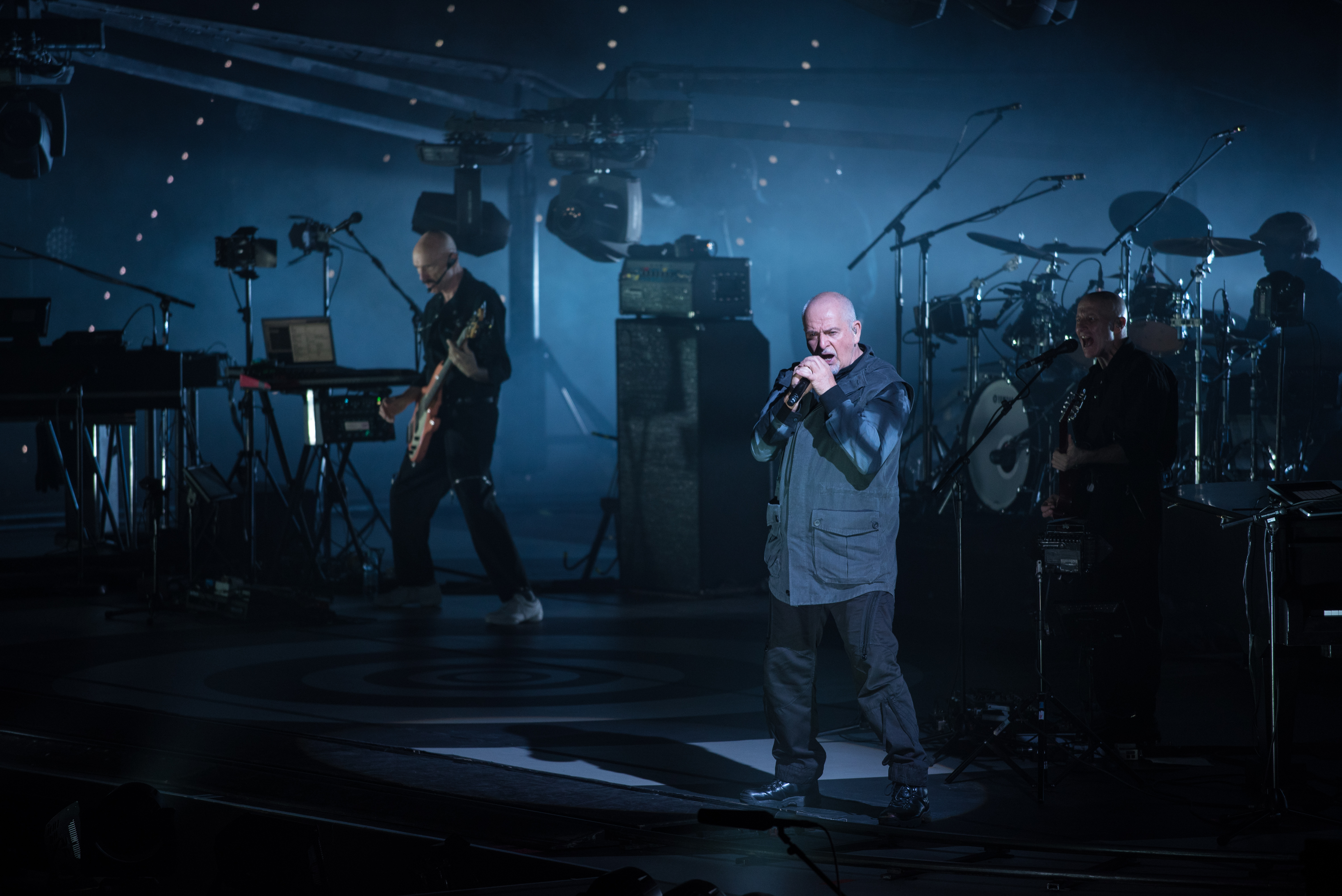 Palaolimpico, Torino